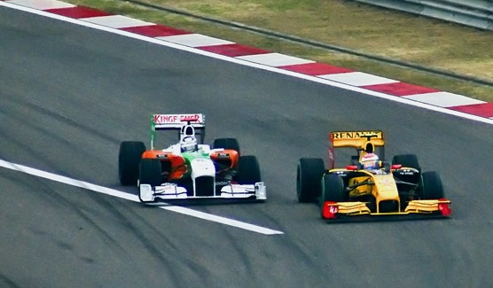 Petrov overtakes Sutil on the 6th lap.